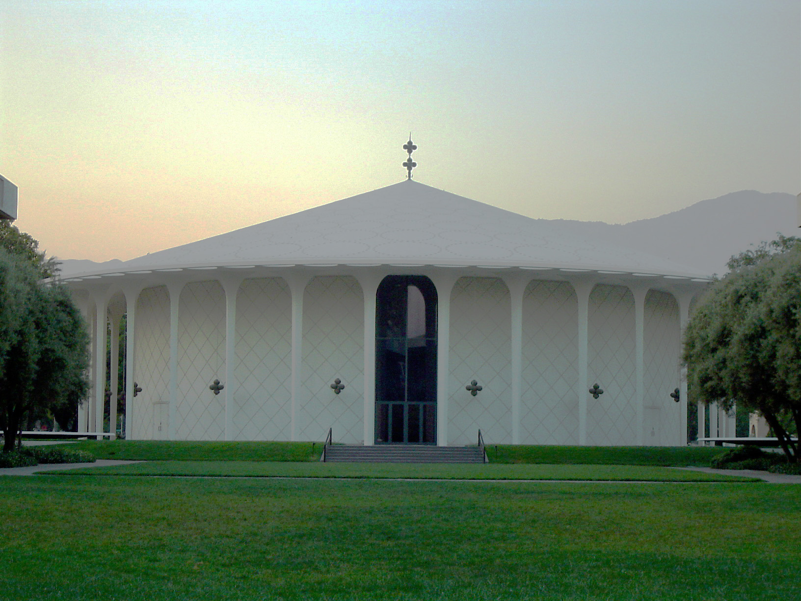 Beckman Auditorium, Caltech, with San Gabriel Mountains on the background